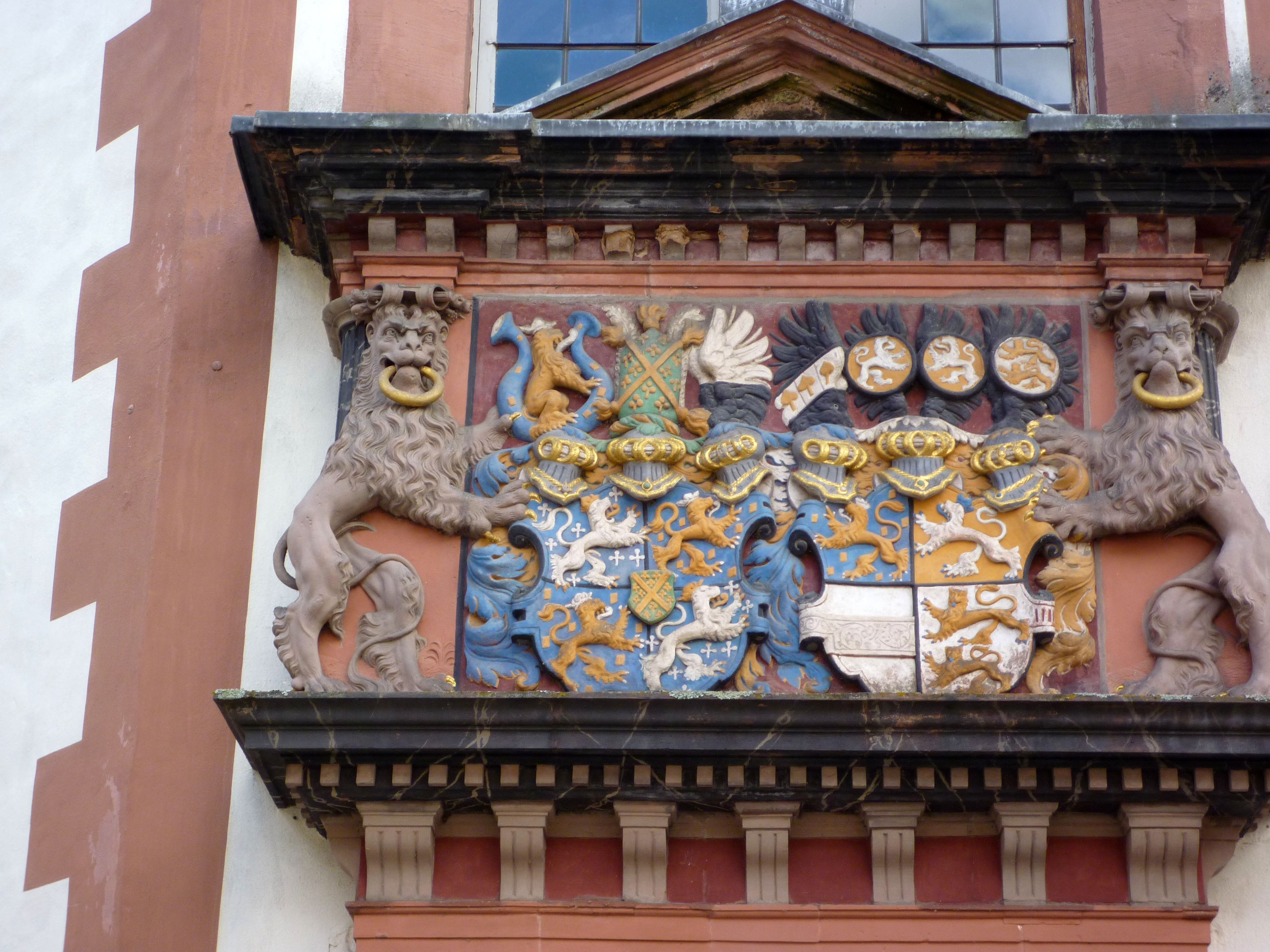 Castle Weilburg - Balcony with arms of alliance Nassau-Dillenburg and Nassau-Weilburg (! Lions of Nassau-Weilburg look to Nassau-Dillenburg (turned) !)